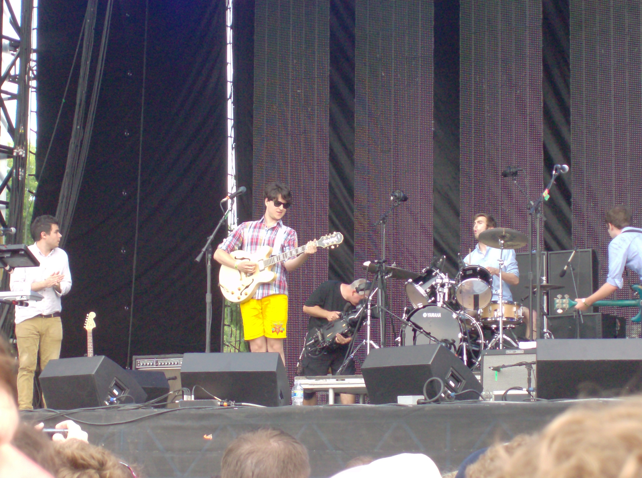 Vampire Weekend at Lollapalooza in Grant Park, Chicago, IL on August 8th, 2009.